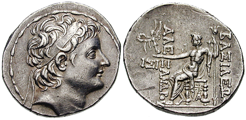 Alexander II. 128-123 BC. AR Tetradrachm (16.83 gm). Antioch mint. Diademed head right ΑΛΕΞΑΝΔΡοΥ ΒΑΣΙΛΕΩ[Σ] Zeus enthroned left, holding Nike in right hand, lotus-tipped sceptre in left; ΙΣΙ to left, star and A under throne. SNG Spaer 2277 var. (Ð under throne); Newell, SMA 327 var. (same); Houghton, CSE, 298 (same obverse die).